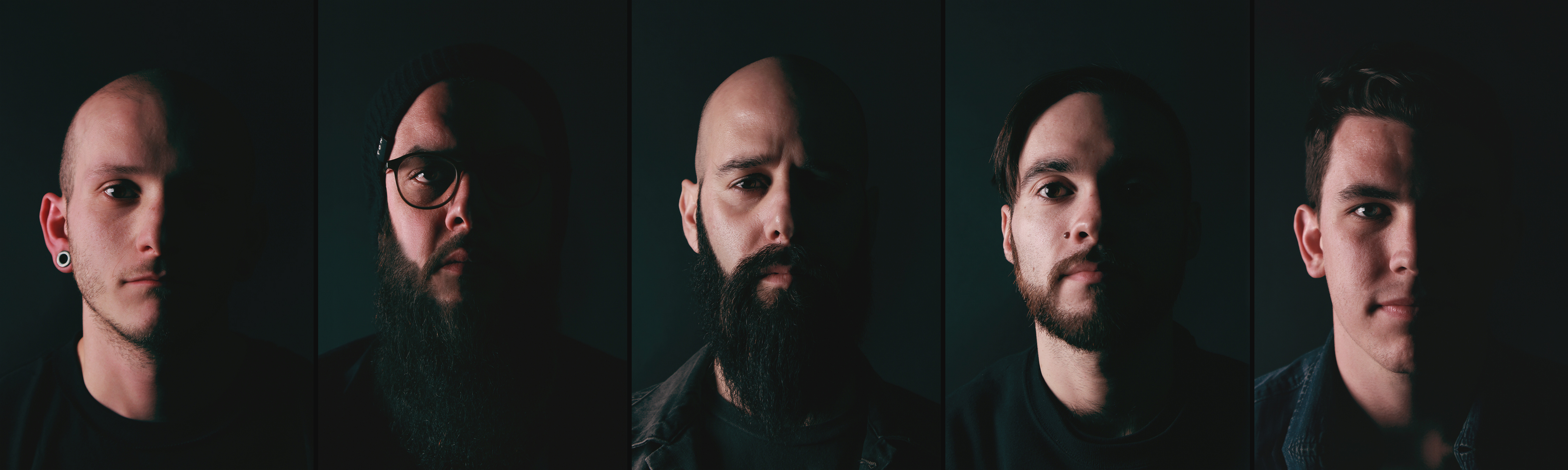 Current group picture